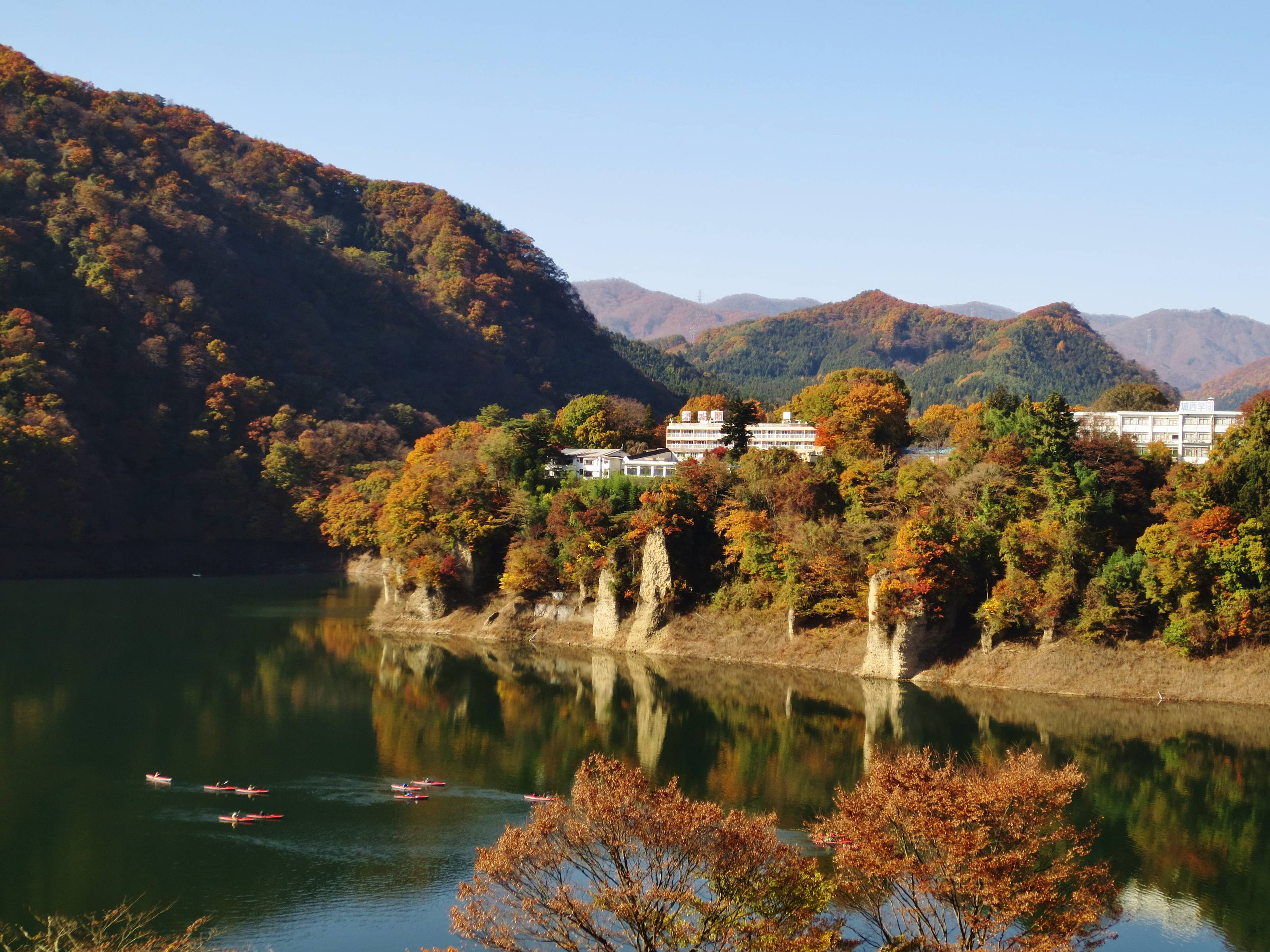 Sarugakyō Onsen.